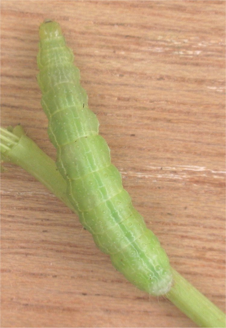 (nl: Gamma-uil op wortel) Autographa gamma on Daucus carota